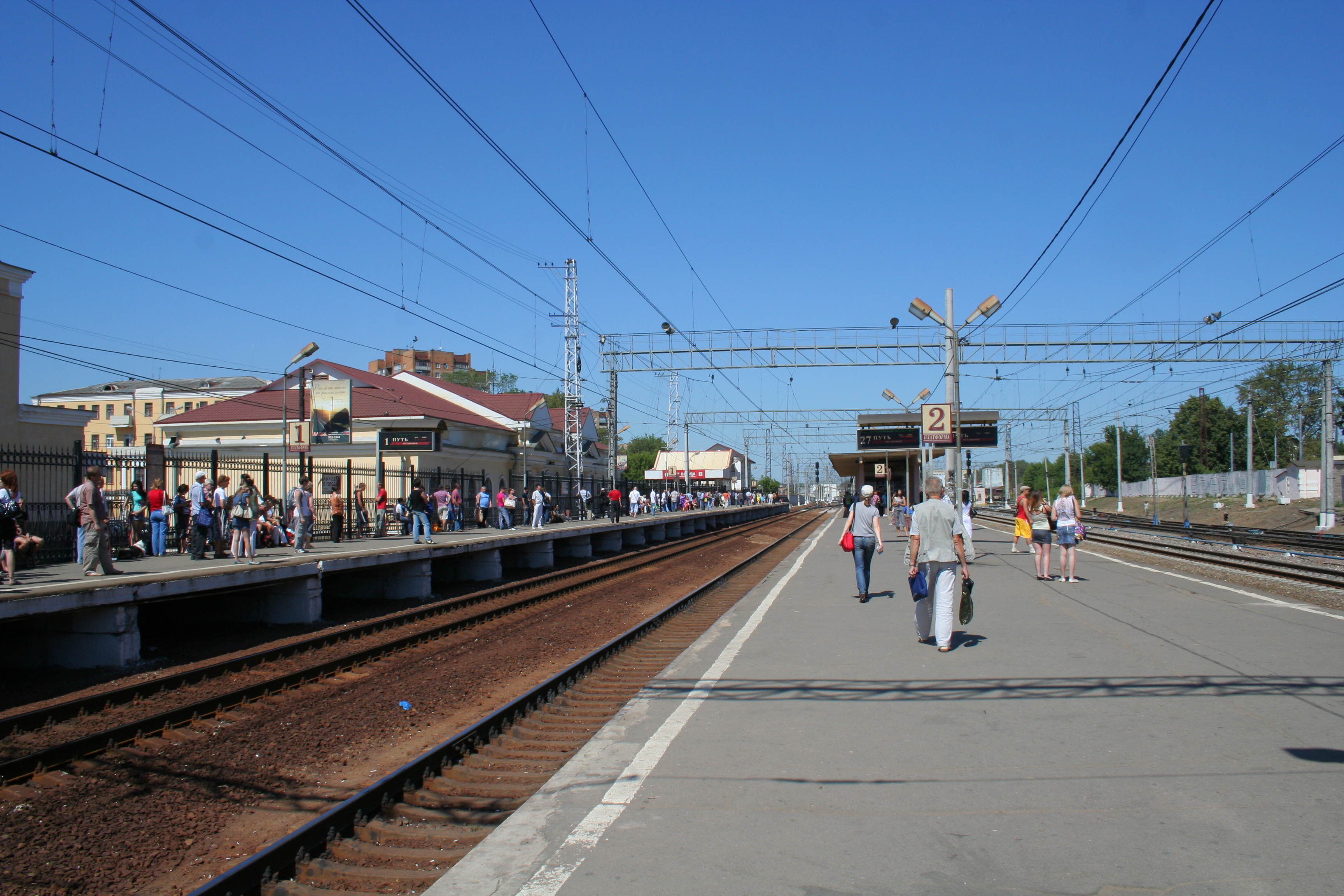 Train station Podolsk, Moscow Oblast